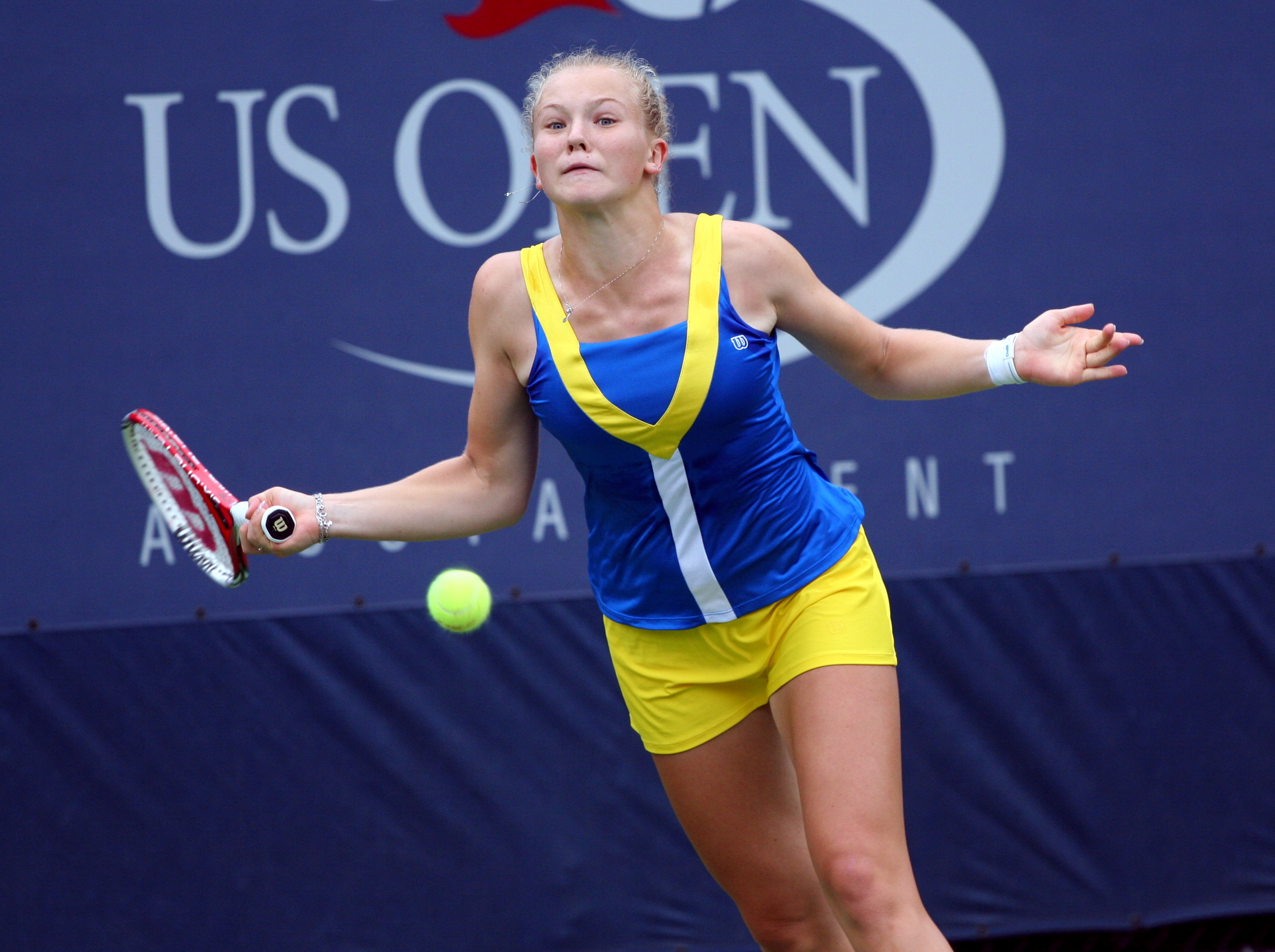 Kateřina Siniaková at the 2012 US Open